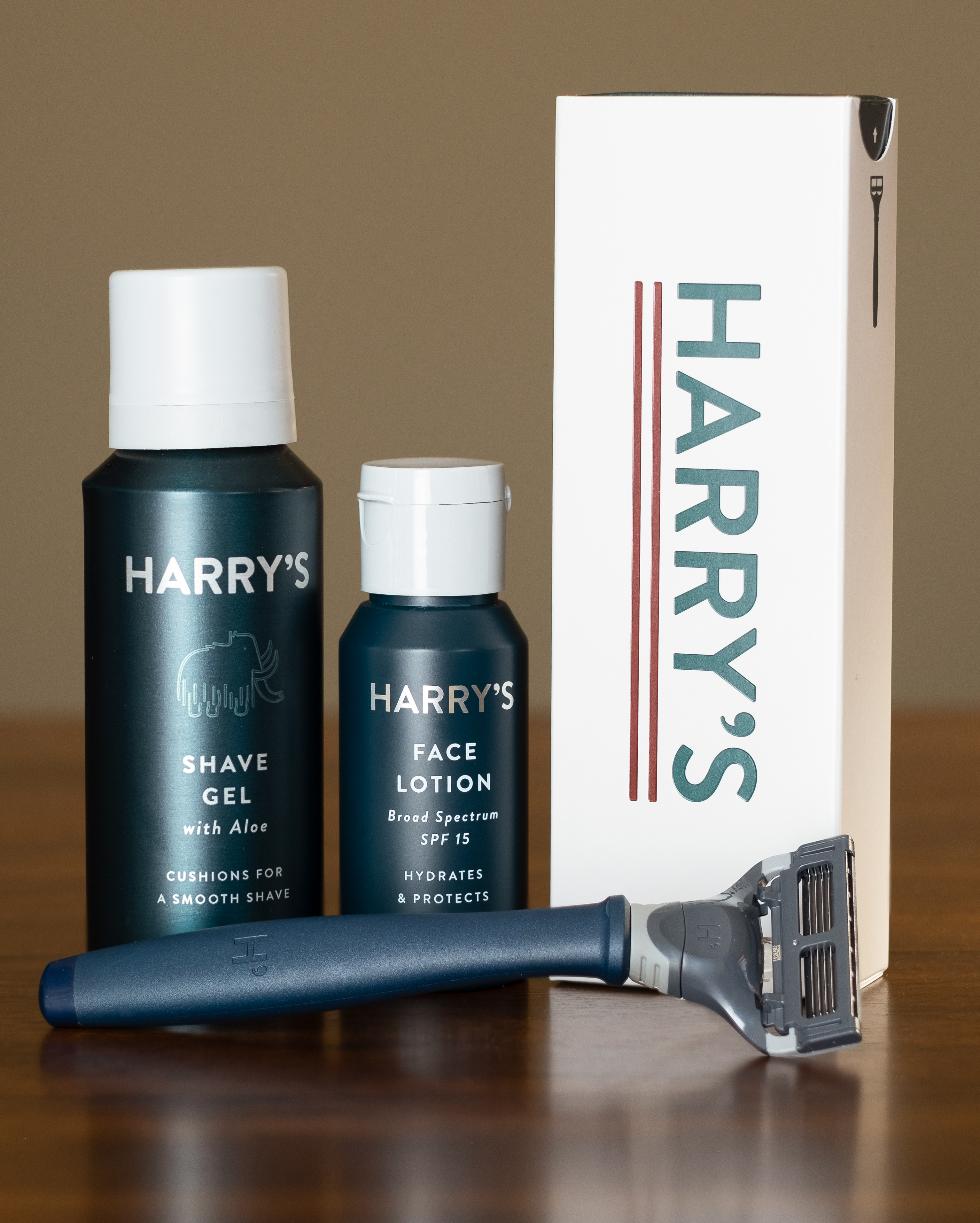 Harry's five-blade razor, shave gel, and face lotion.